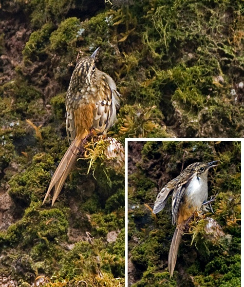 Rusty-flanked Treecreeper Certhia nipalensis, Lava, outskirts of Neora Valley National Park, northeastern West Bengal, India